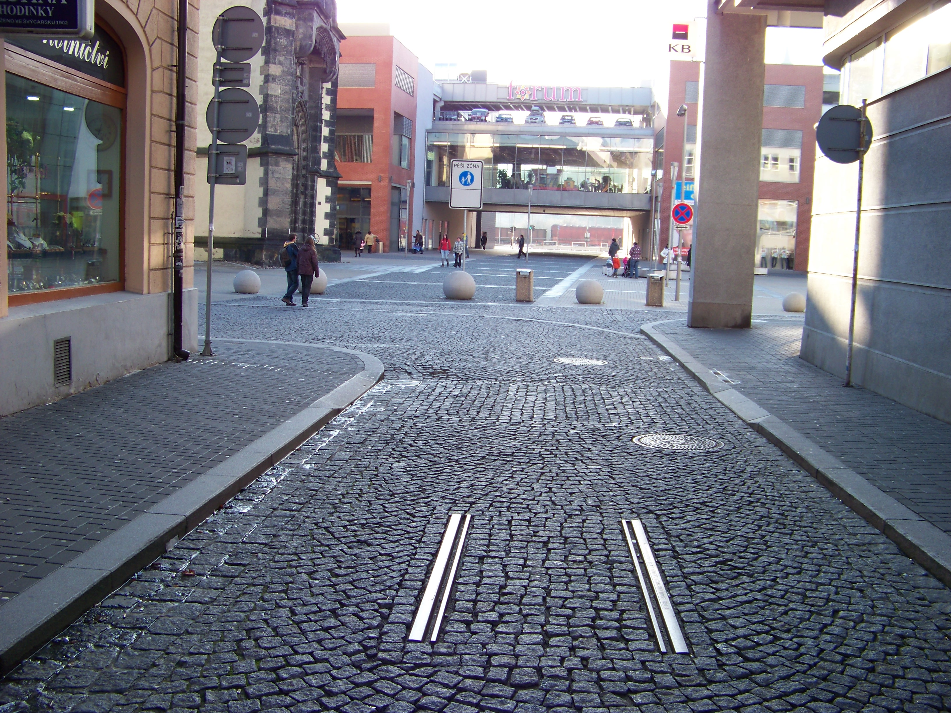 Ústí nad Labem, the Czech Republic. Bílinská street, tram transport memorial.